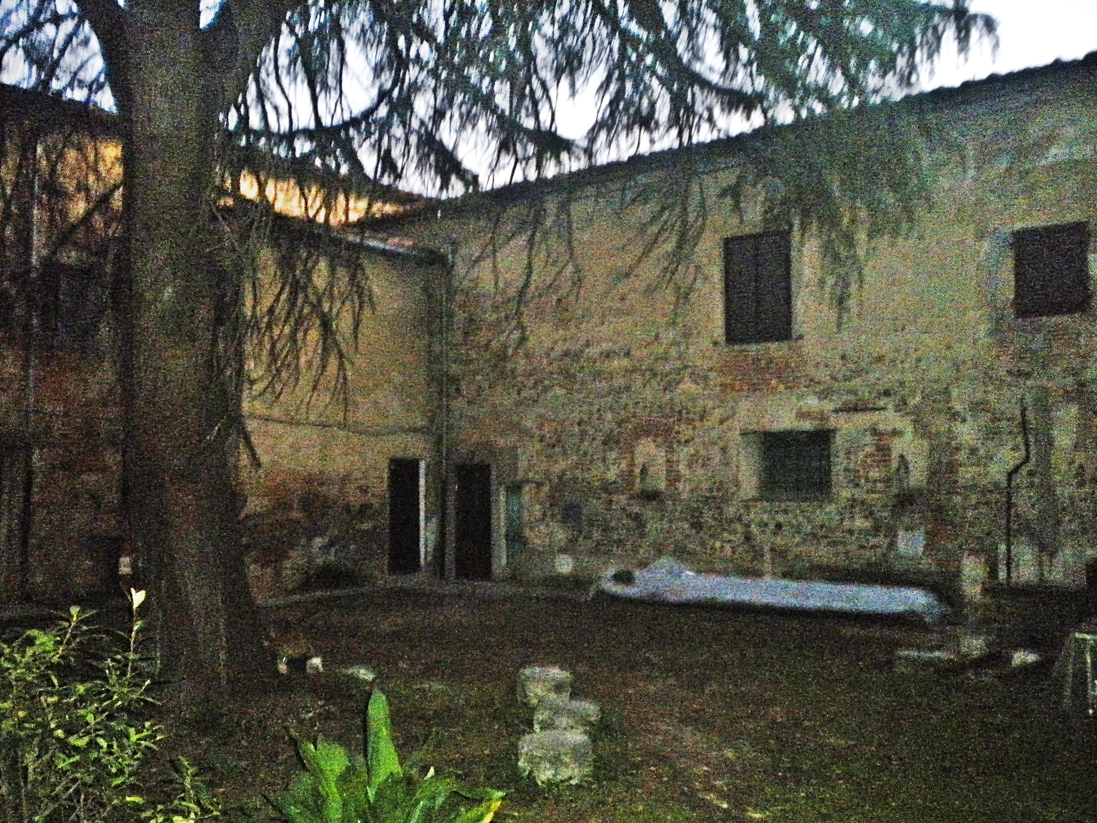 cloister